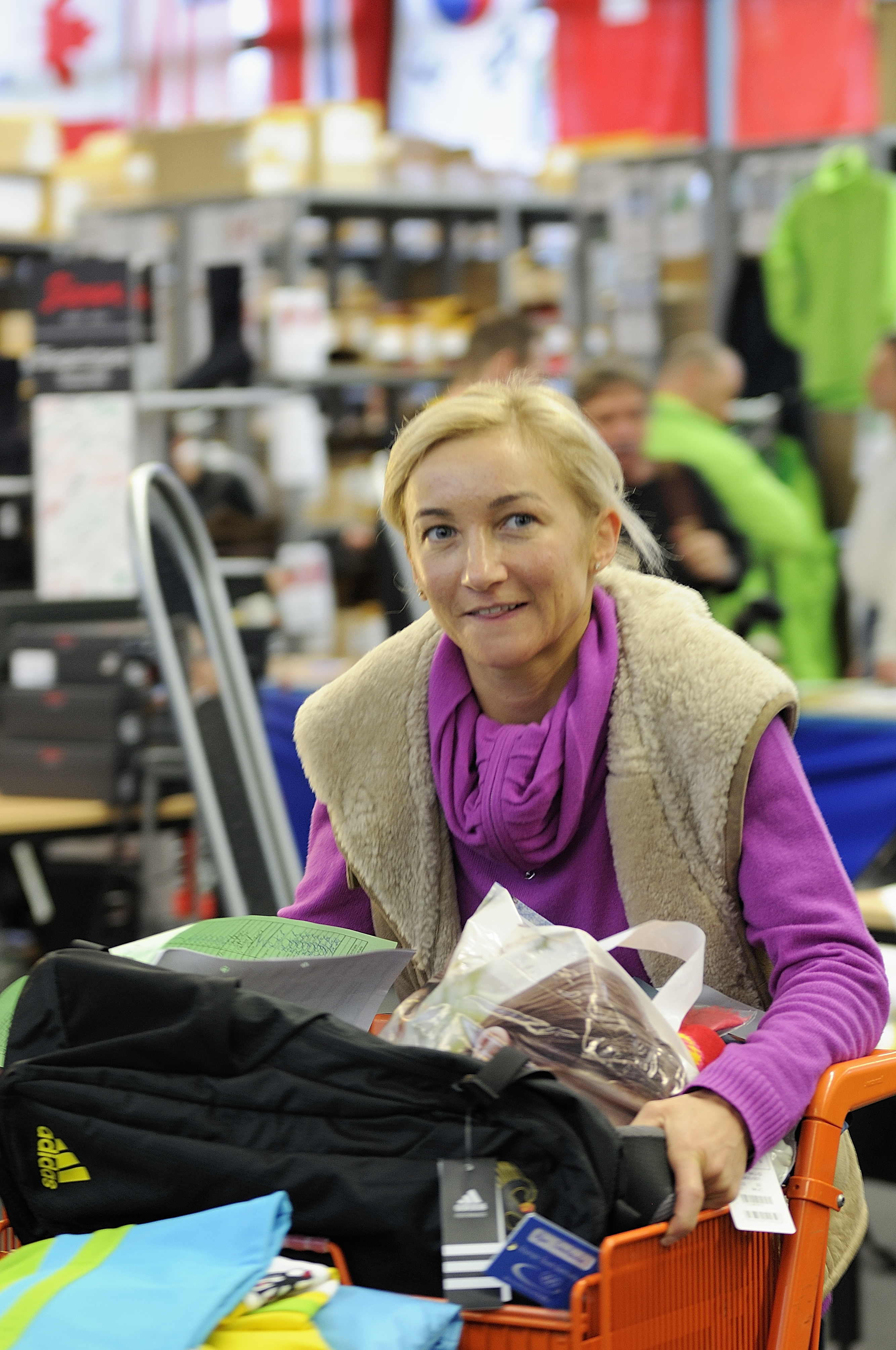 Picture taken in Erding during the investiture of the 2014 German olympic team (project). Aljona Savchenko.